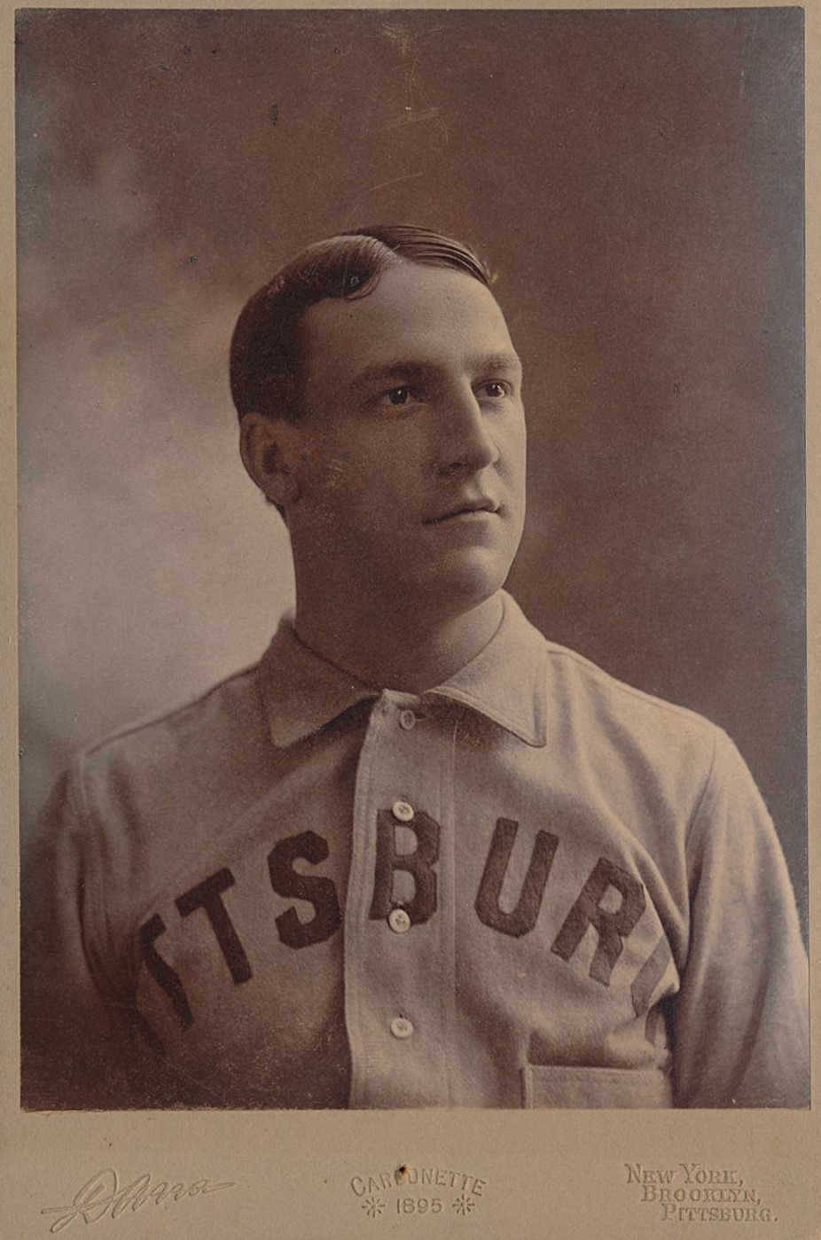 1895 Dana Studio cabinet card of baseball player Pink Hawley